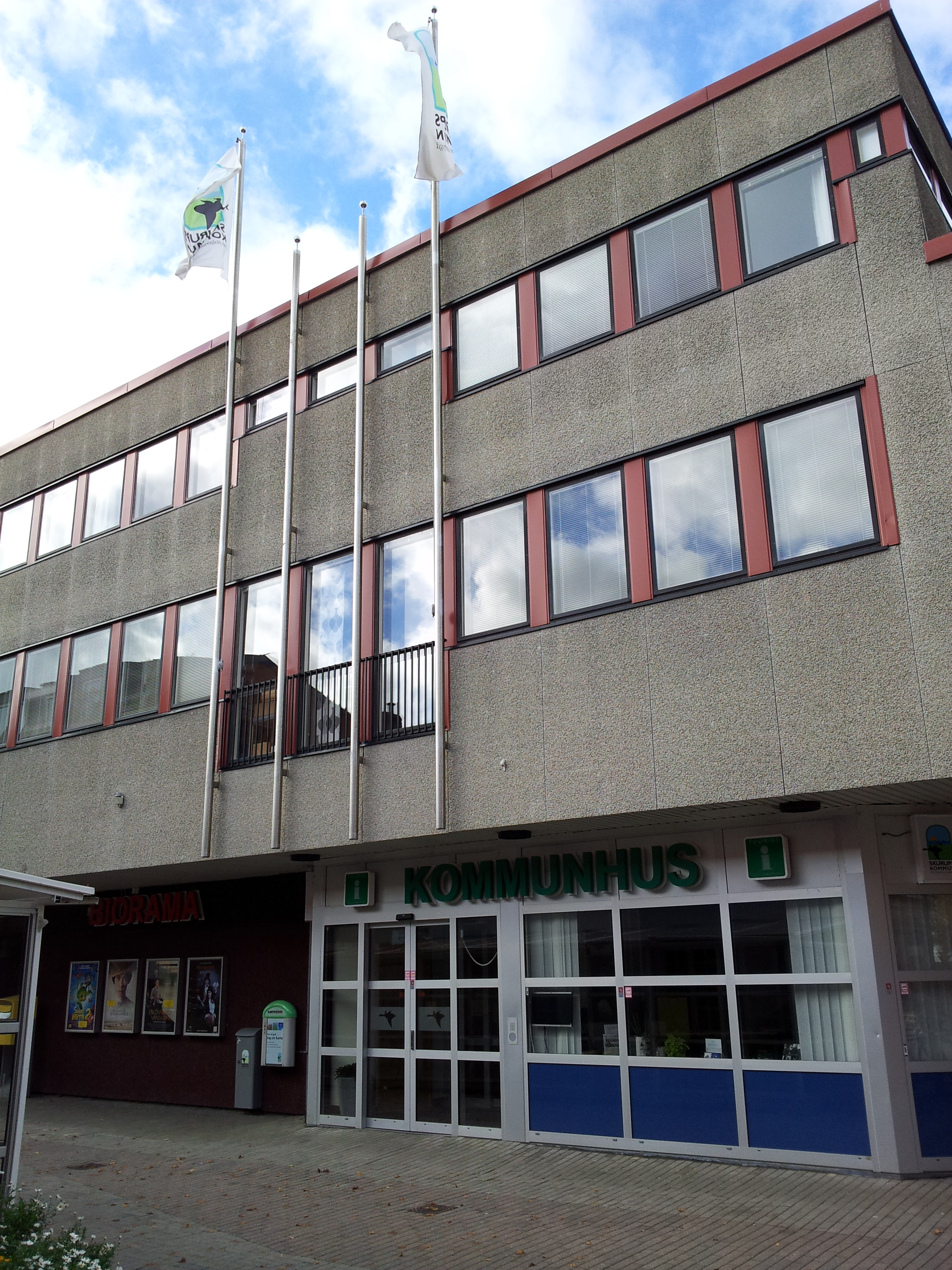 Skurup's municipal building